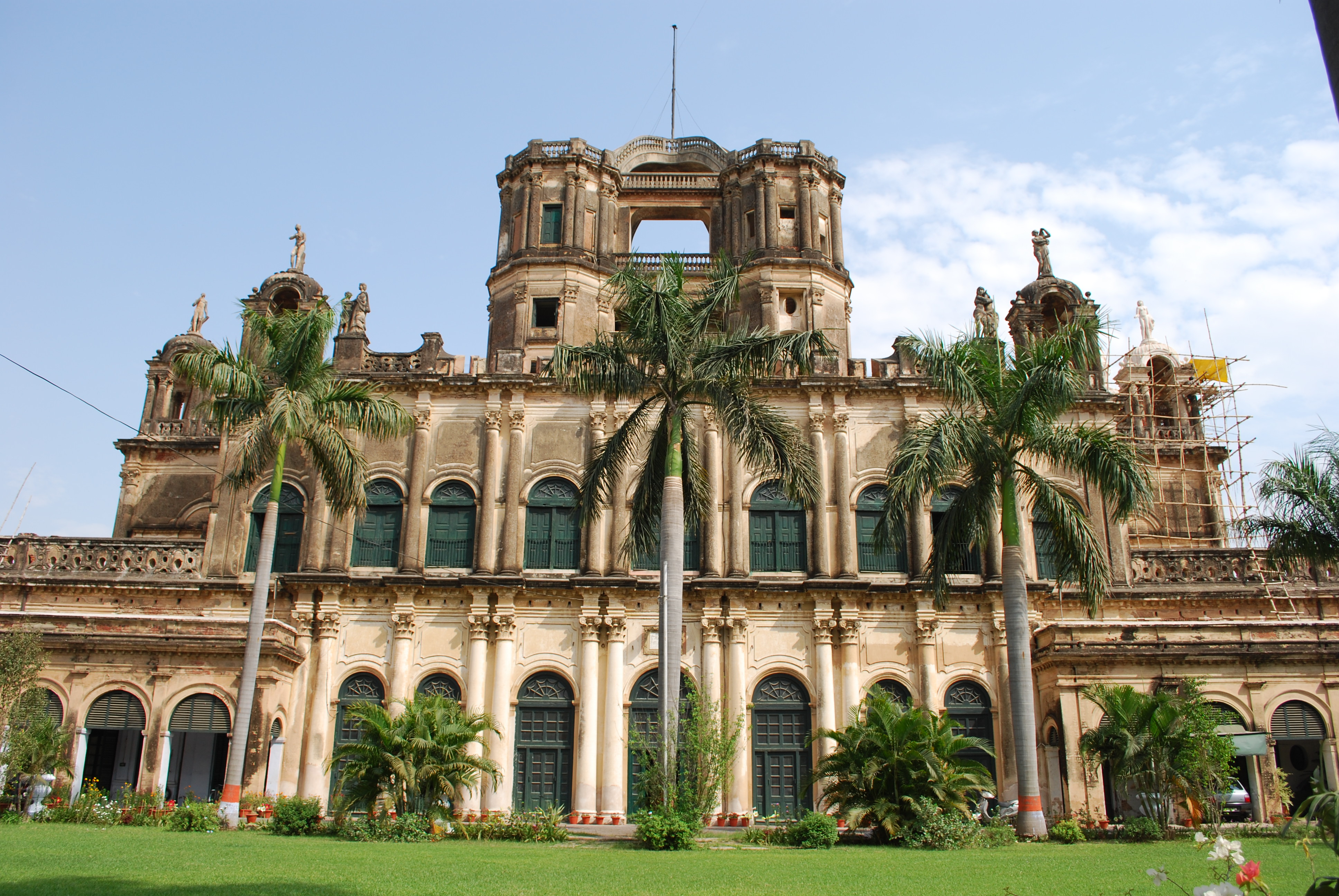 La Martiniere college, Lucknow, india